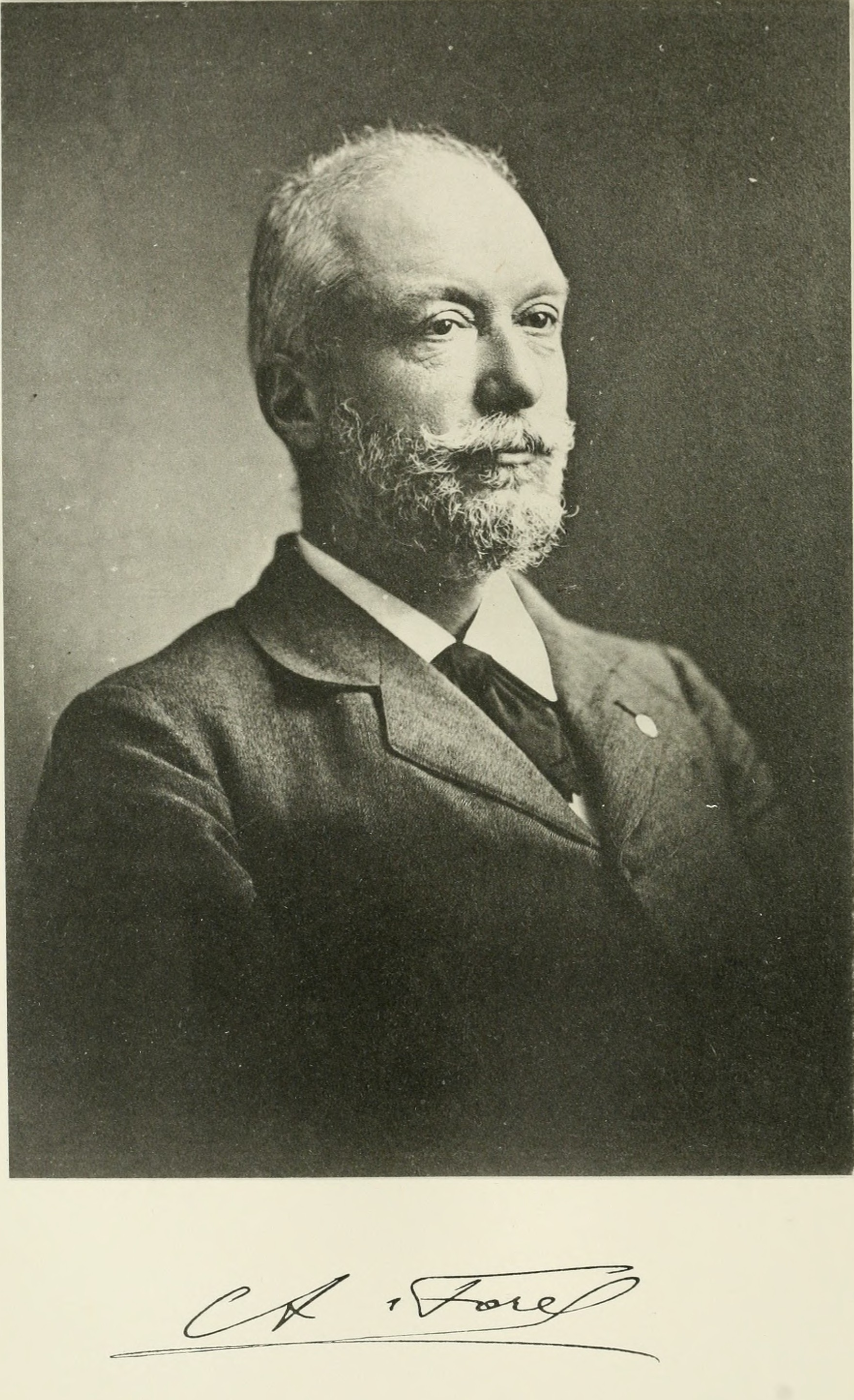 Auguste Forel